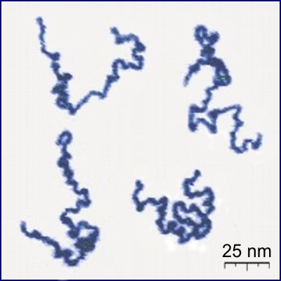 Appearance of real linear polymer chains as recorded under liquid medium using an atomic force microscope. Chain thickness is 0.4 nm. At giving attribution, the following reference should be cited: Y. Roiter and S. Minko, AFM Single Molecule Experiments at the Solid-Liquid Interface: In Situ Conformation of Adsorbed Flexible Polyelectrolyte Chains, Journal of the American Chemical Society, vol. 127, iss. 45, pp. 15688-15689 (2005).